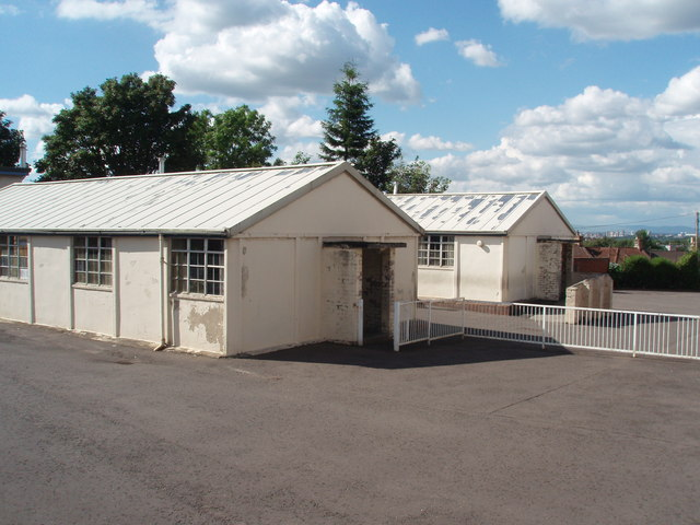 Machanhill Primary School HORSA Huts Part of the Machanhill Primary School campus housing the kitchen and dining halls. HORSA huts were constructed circa 1947, supposedly as a short term measure (10 year lifespan!), to meet educational needs caused by buildings being destroyed in the war, the post war baby boom and the raising of the school leaving age by the 1944 Education Act (the 'Butler' Act). HORSA = Hut Operation for the Raising of School leaving Age